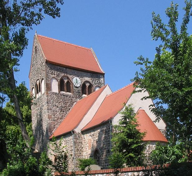 Stonechurch in Hönow, built probably between 1200 and 1250. The village Hönow is situated in the landscape Barnim and a part of the municipality Hoppegarten in the district Märkisch-Oderland, state Brandenburg, Germany.